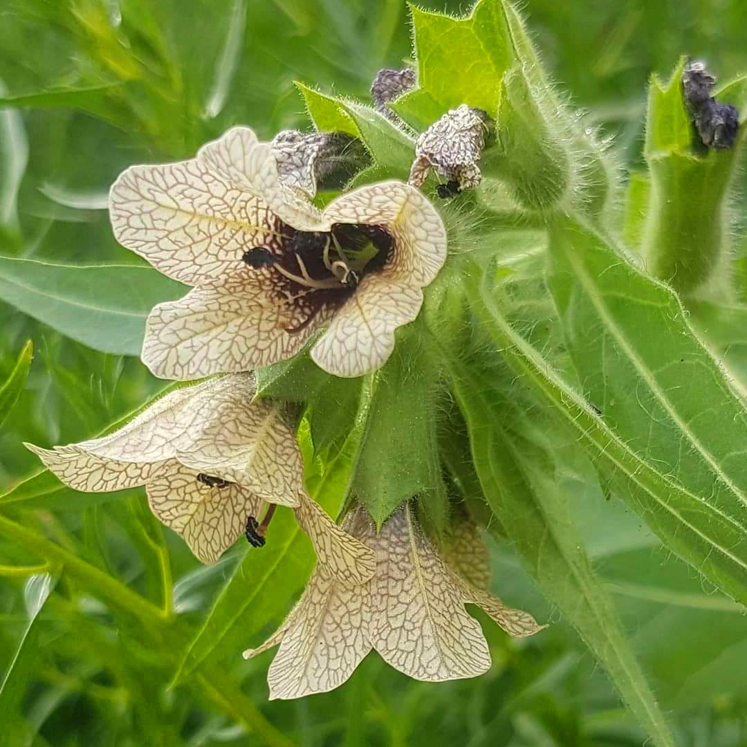 Datura Grass in Eastern Siberia